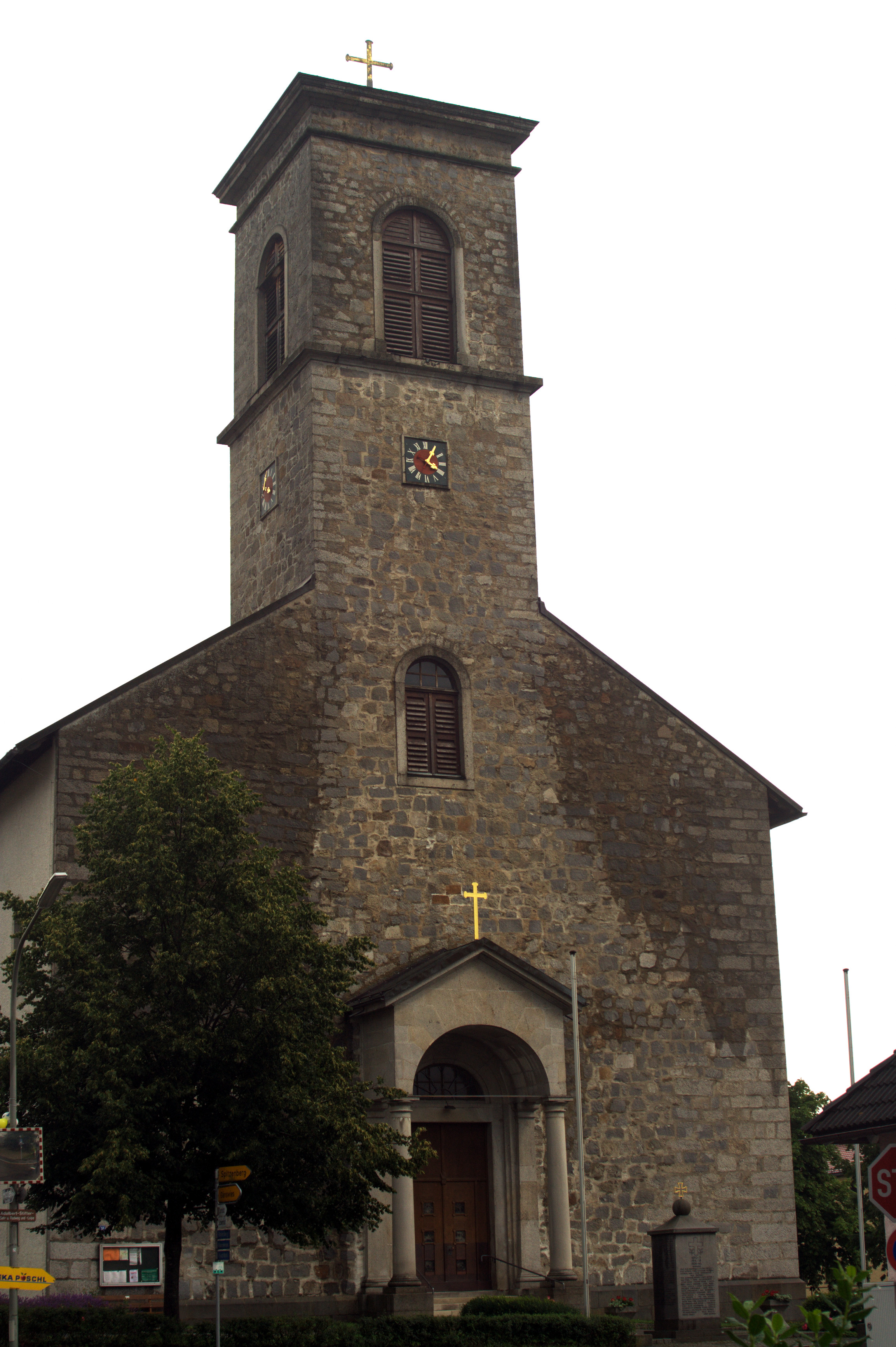 Church in the town Neureichenau Germany